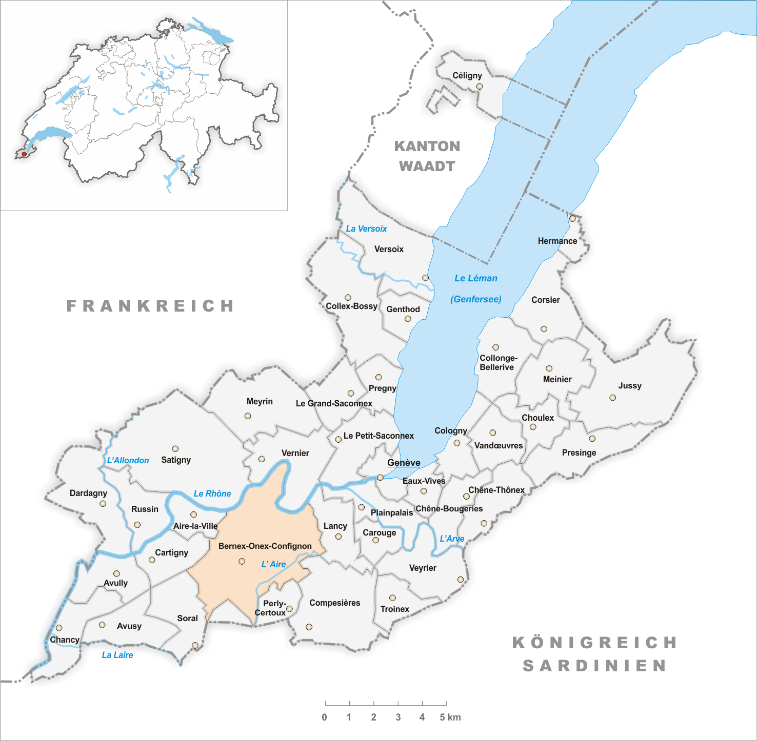 Municipality Bernex-Onex-Confignon Artist: Tschubby